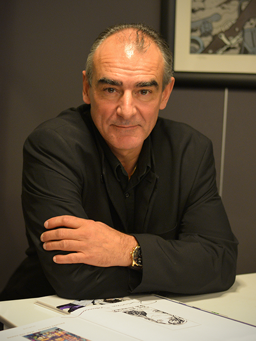 Belgium comics artist Philippe Francq signing his last book in a bookshop, Le Mans, France, november 2014.